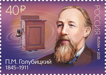 Pavel Golubitzky